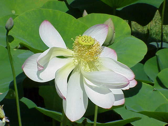 Species: Nelumbo nucifera nucifera Family: Nymphaeaceae Image No. 7